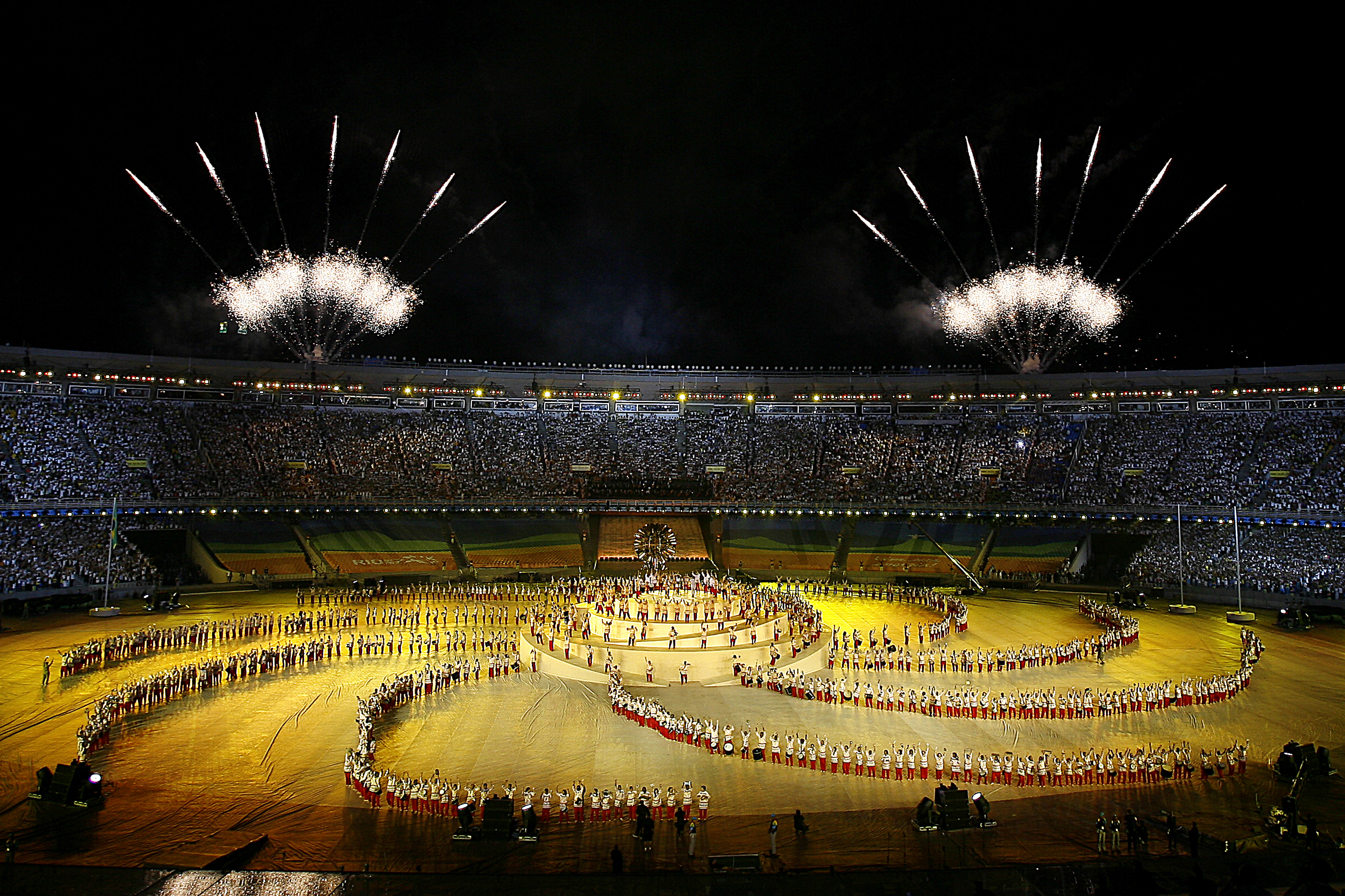 Rio de Janeiro: The opening ceremony, in Maracanã stadium, of the 2007 Pan-American Games. [N.B. Think this is right. - Adam Cuerden]